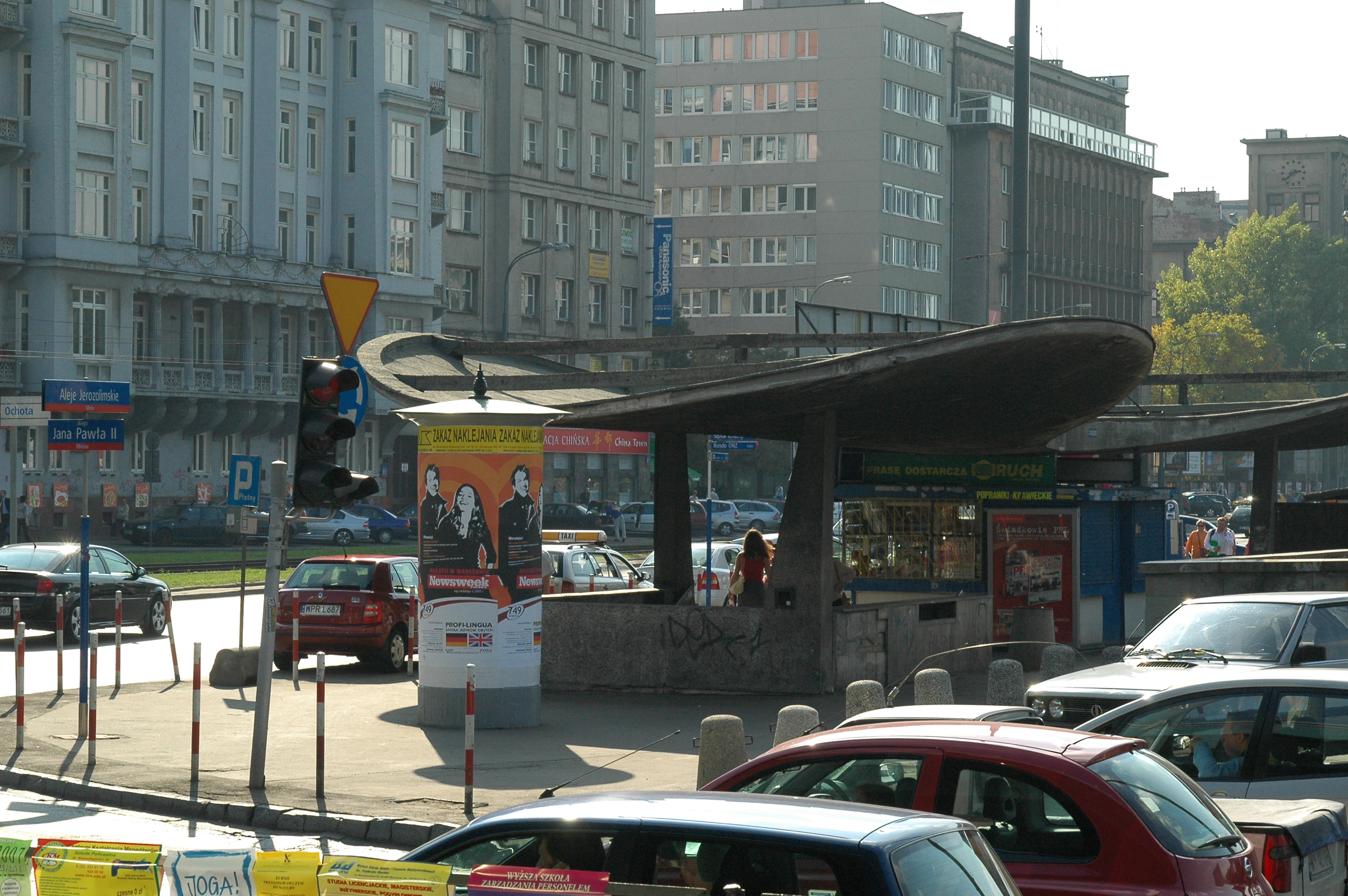 Pics made on a summer day in Warsaw, Poland